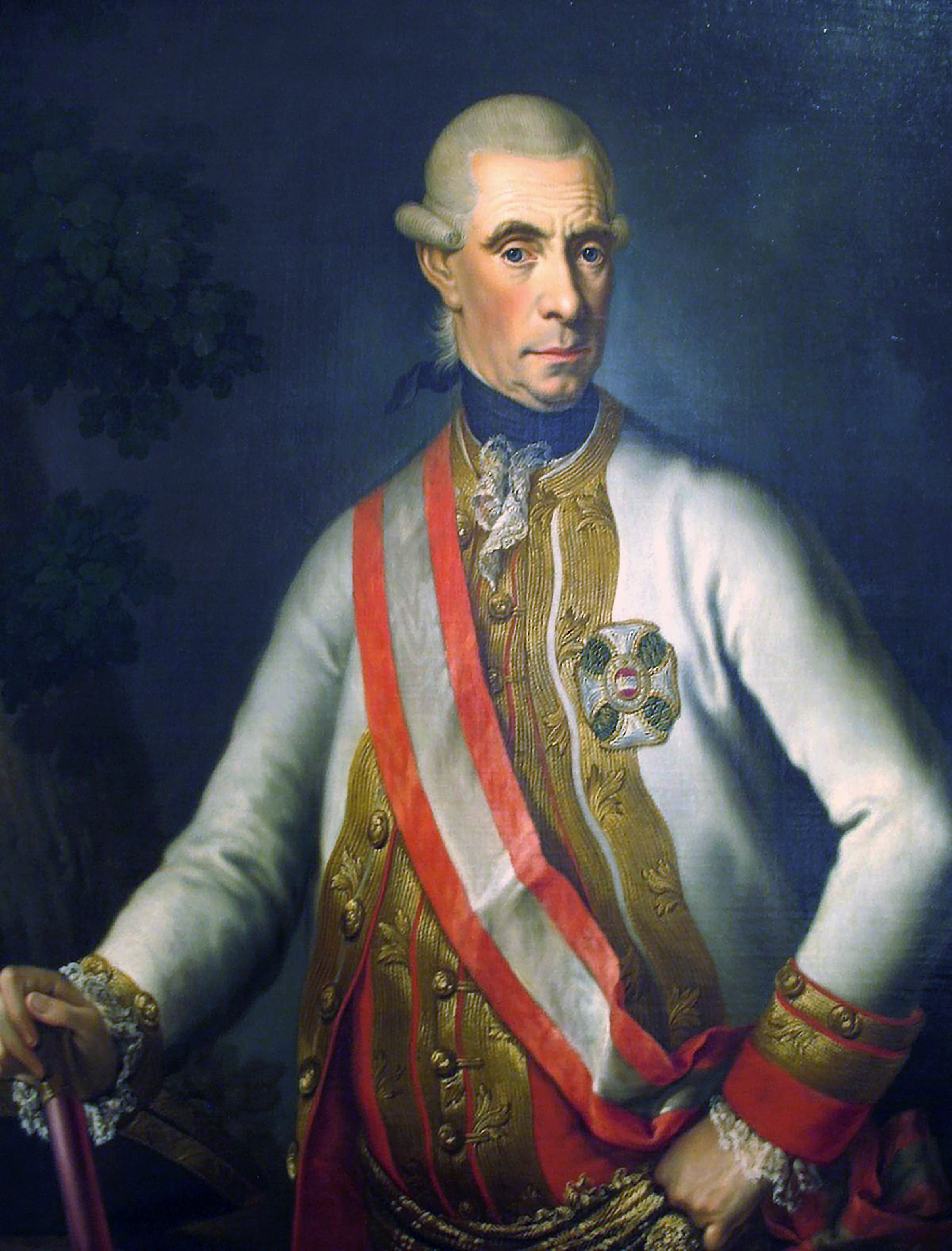 Portrait of Ernst Gideon Freiherr von Laudon (1717-1790)